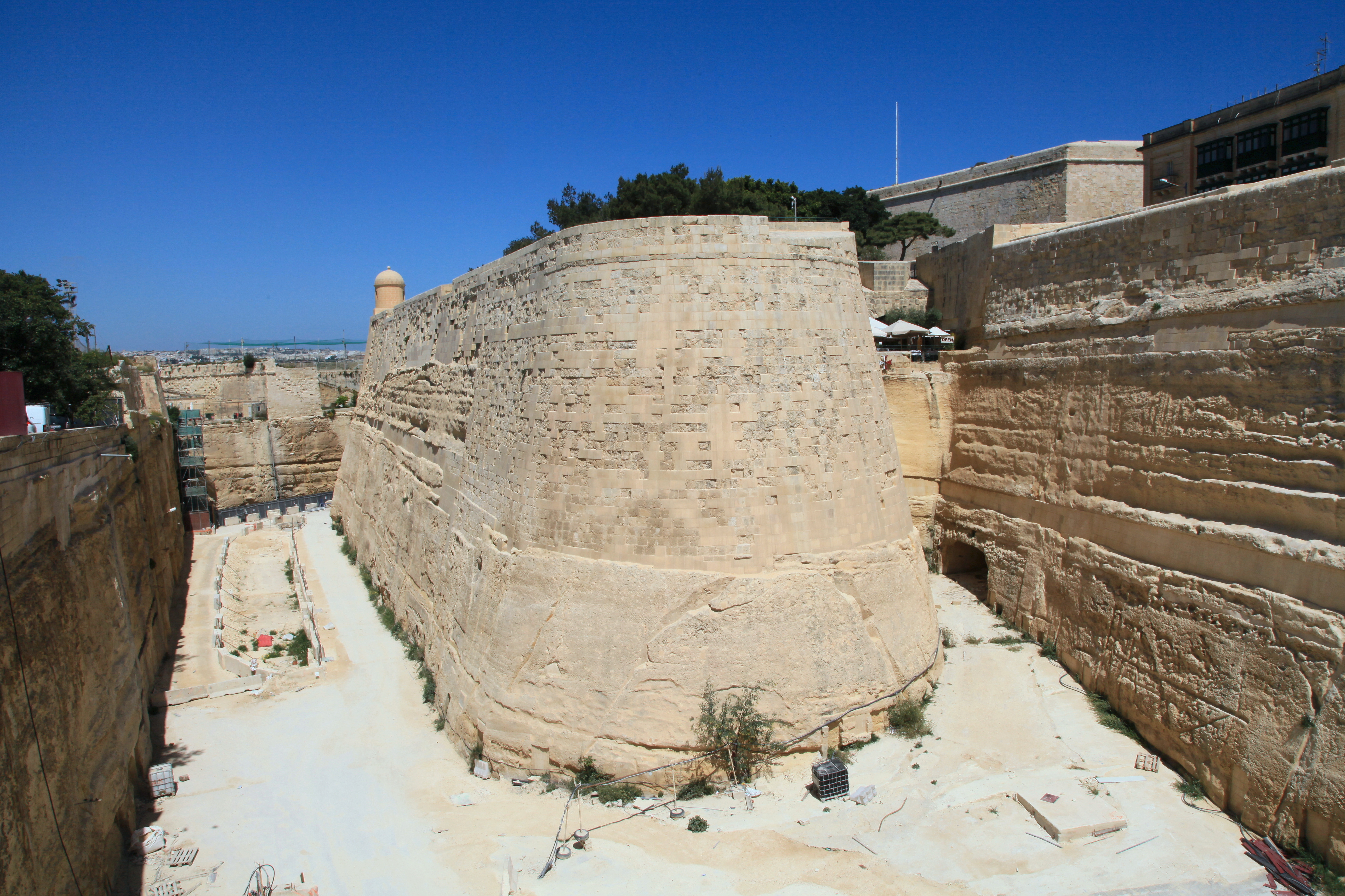 View from the Valletta City Gate bridge to Valletta Ditch and St. John's Bastion in Valletta, Malta